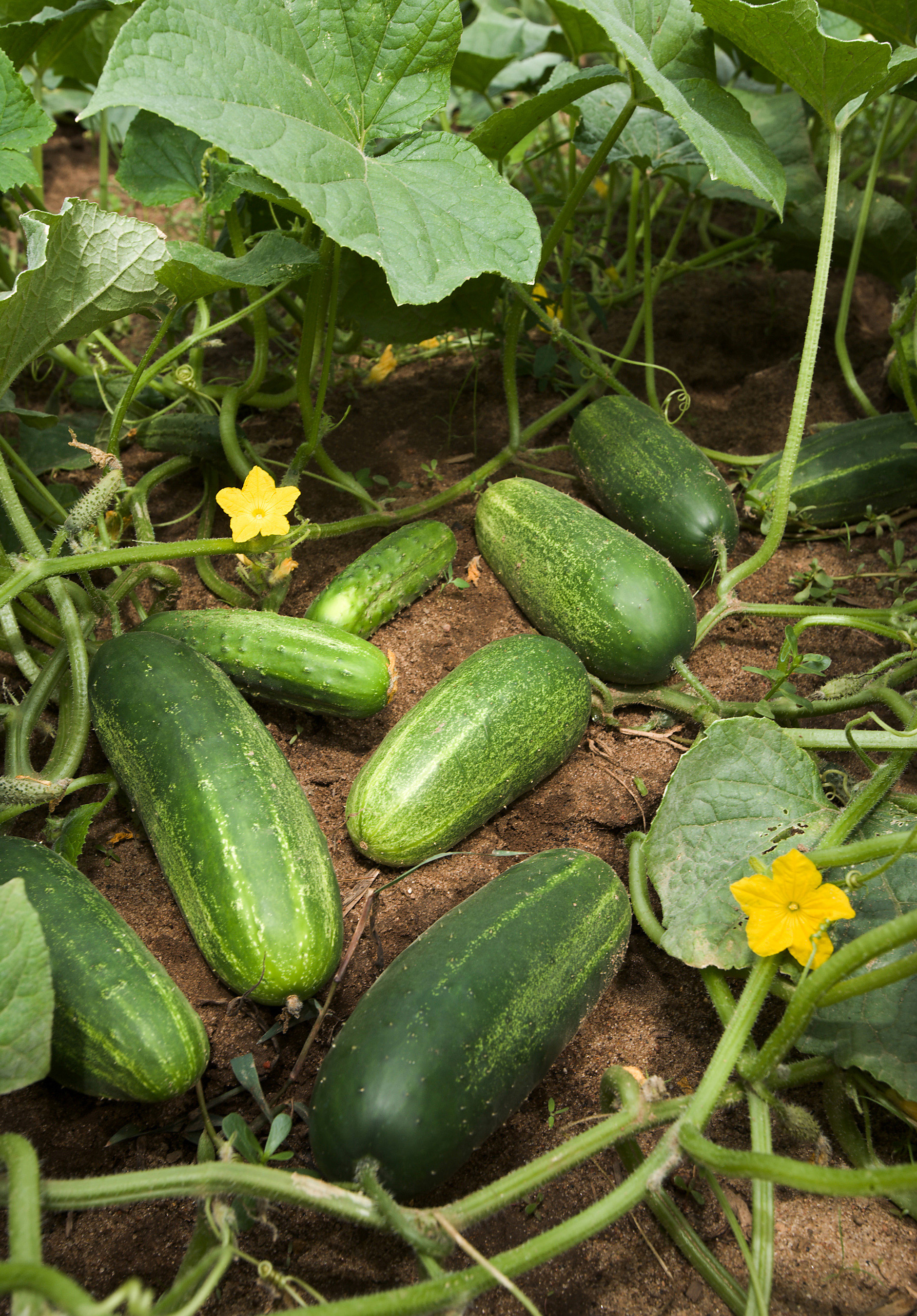 Cucumber fruit developing on plants possessing multiple lateral branching, which is atypical of commercial cucumbers. This type of branching is important because increasing branch number increases yield potential.